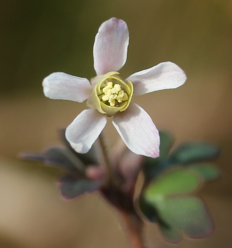 Semiaquilegia adoxoides in Mount Fujiwara, Inabe Mie prefecture, Japan.